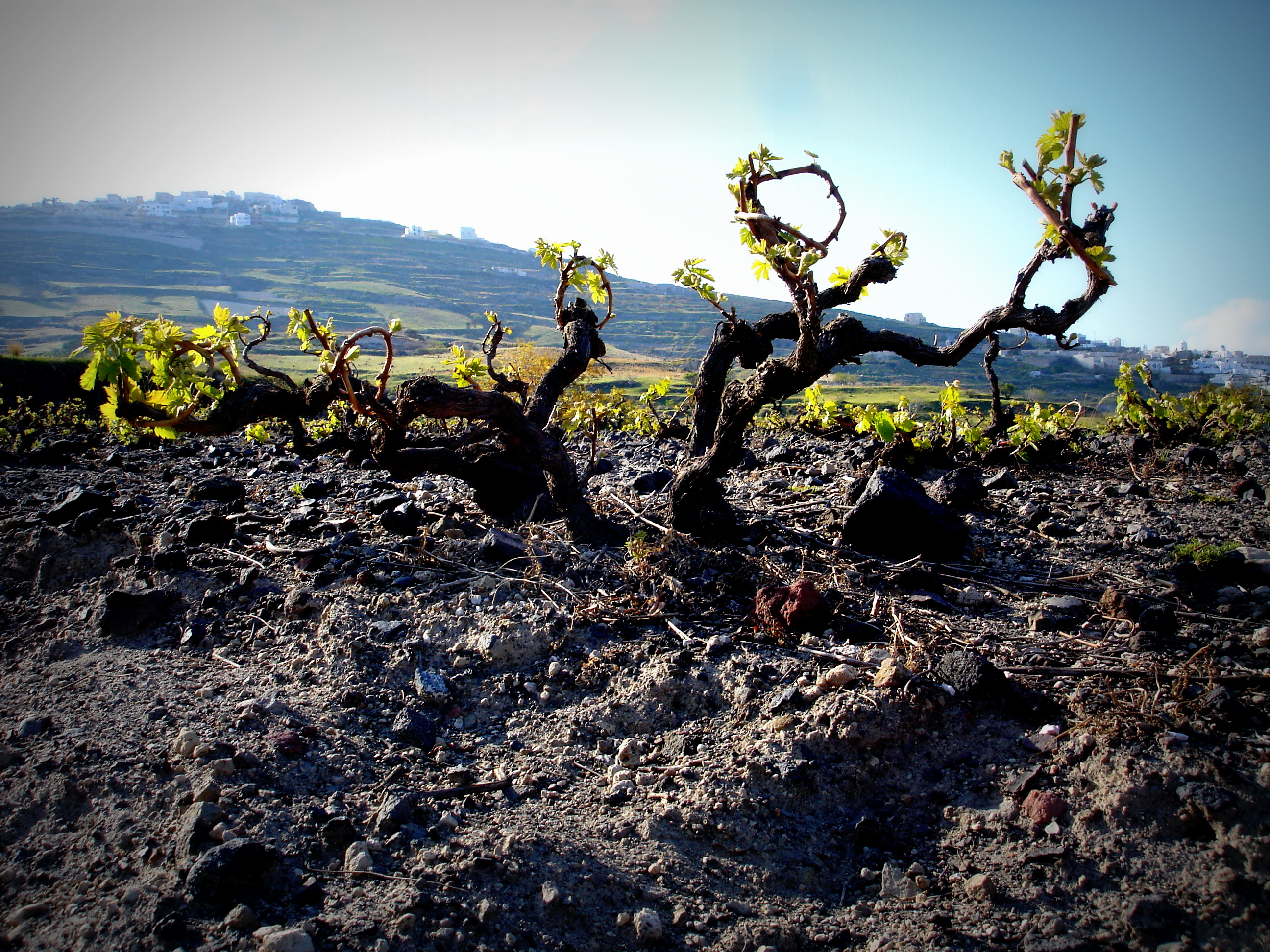 Vineyard on Santorini